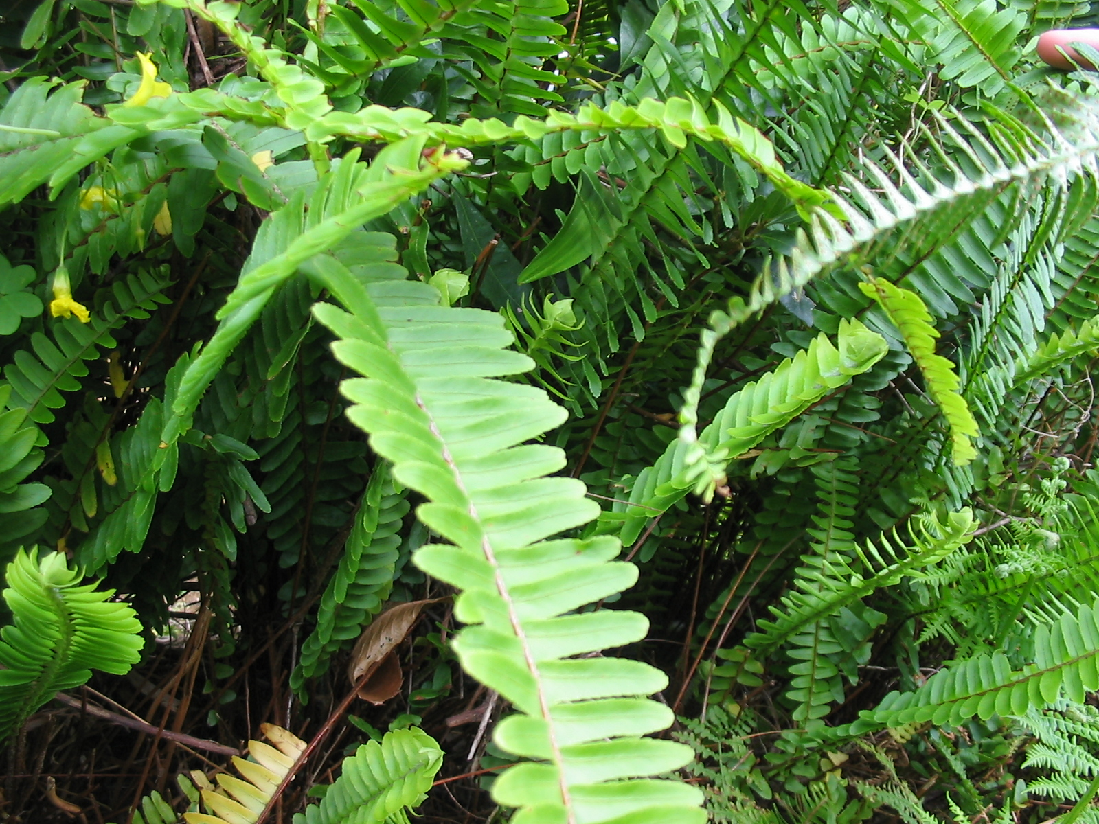 Nephrolepis cordifolia - habitus